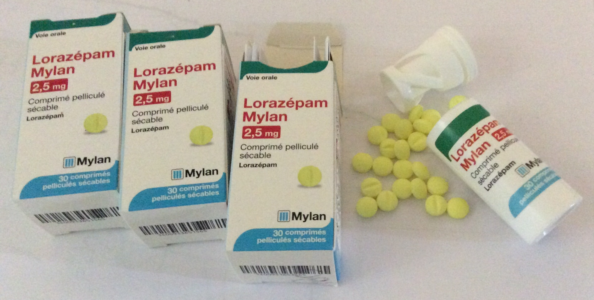 3 boites de médicaments